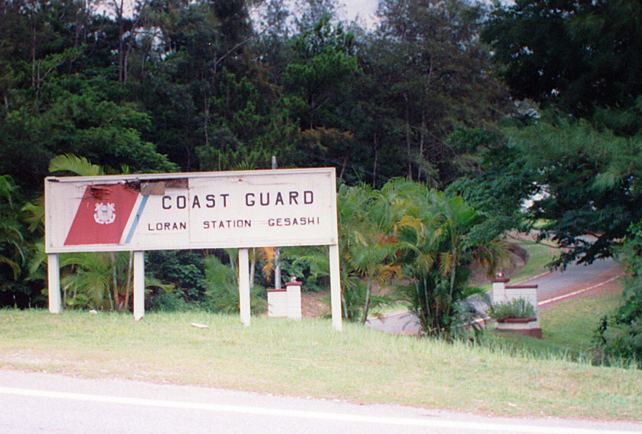 US Army Gesashi Communication Station 慶佐次通信所, Higashi-son, Okinawa Prefecture, Japan, photographed circa 1992 when it was a Coast Guard LORAN station.